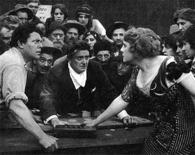 L. to R. : William Farnum, Wheeler Oakman, and Kathlyn Williams in The Spoilers (1914) - cropped screenshot.